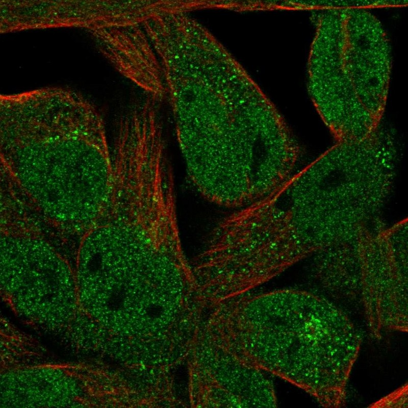 FAM89A Expression RH30 Cell Line